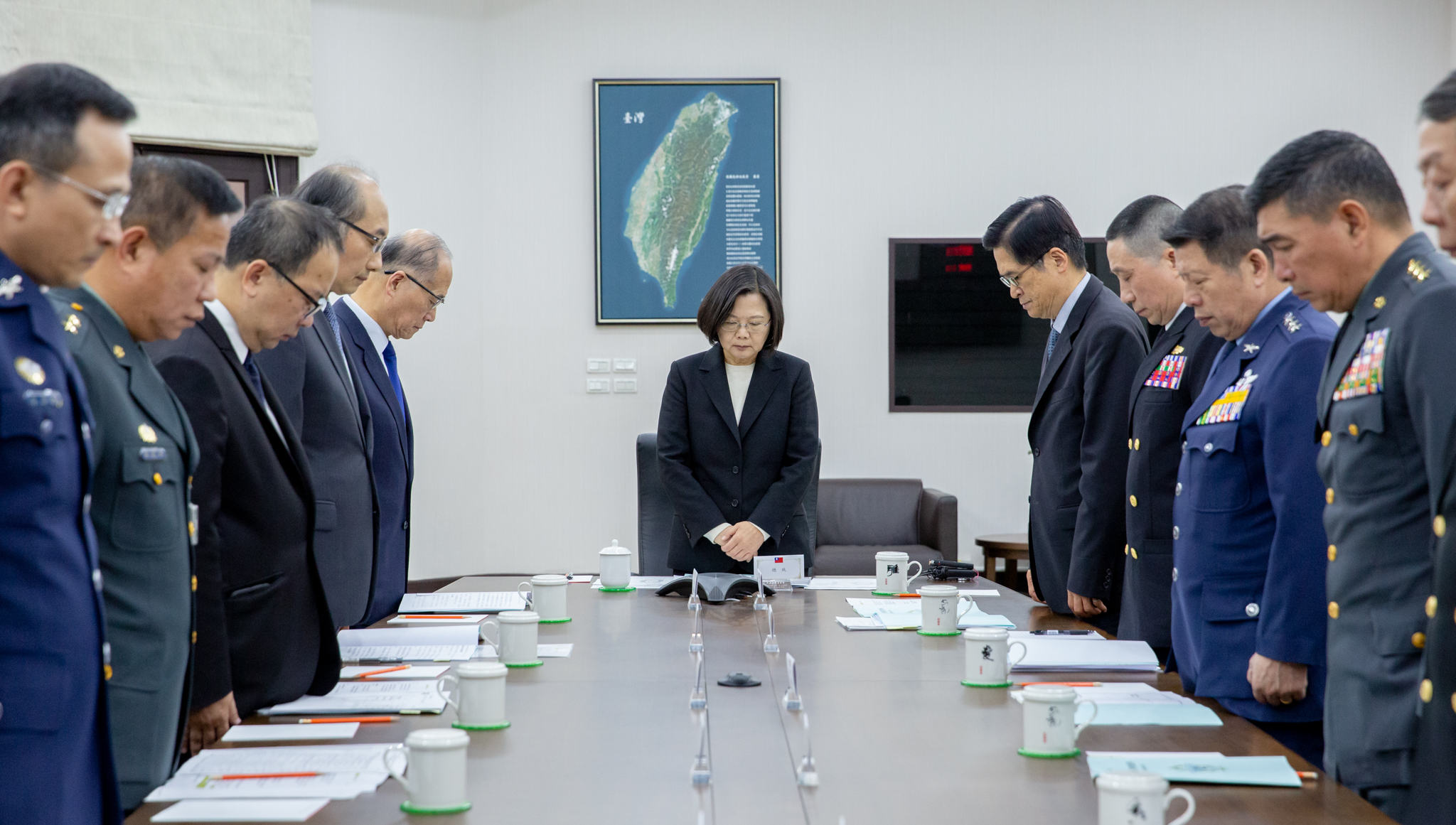 Official Photo by Wang Yu Ching / Office of the President